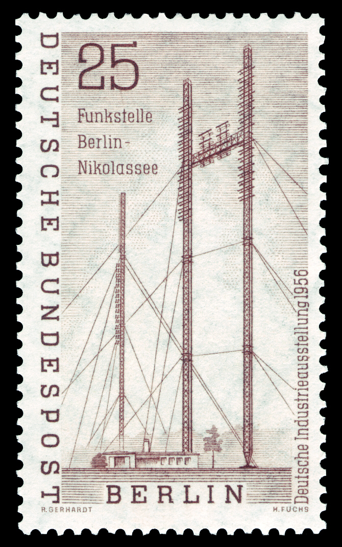 German industrie exhibition Graphics by Gerhardt Ausgabepreis: 25 Pfennig First Day of Issue / Erstausgabetag: 15. September 1956 Michel-Katalog-Nr: 157 (Berlin)